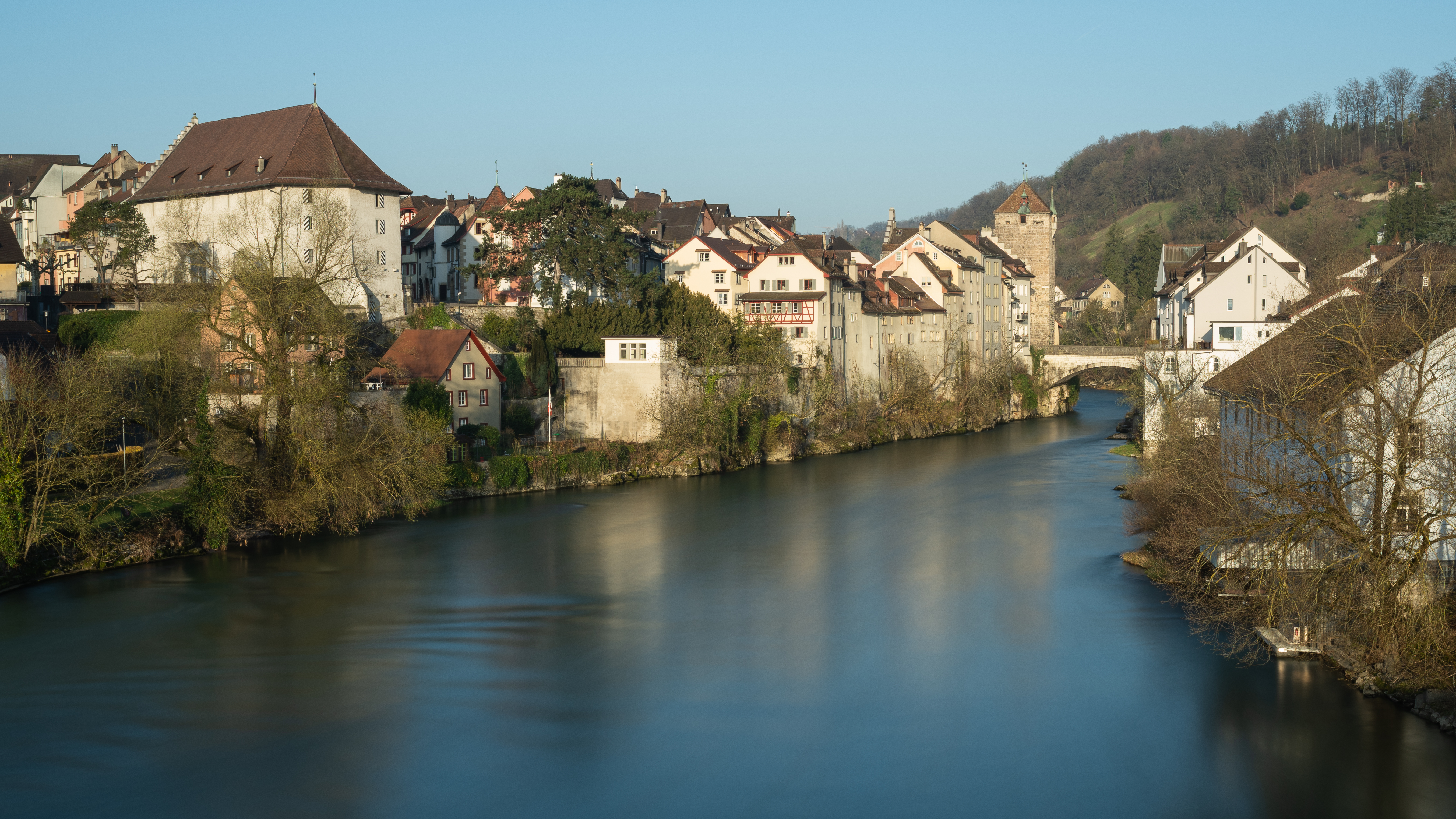 City of Brugg, Canton Aargau, Switzerland: View from the Casino Bridge